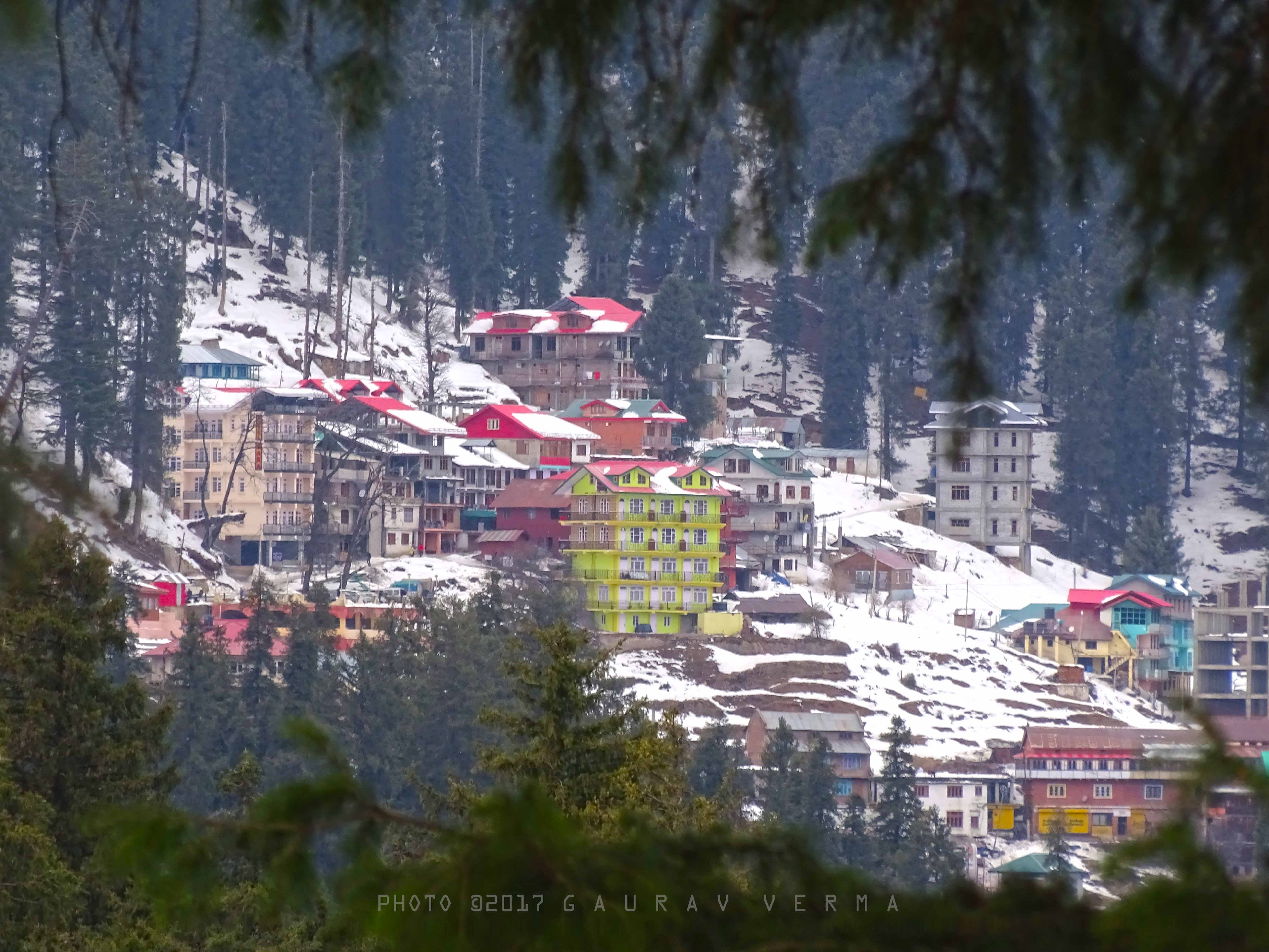 Narkanda as seen from on the way to Hatu Peak.